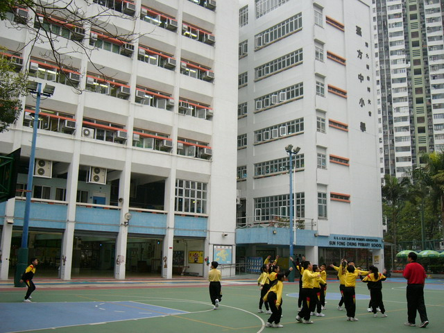 SFC primary school